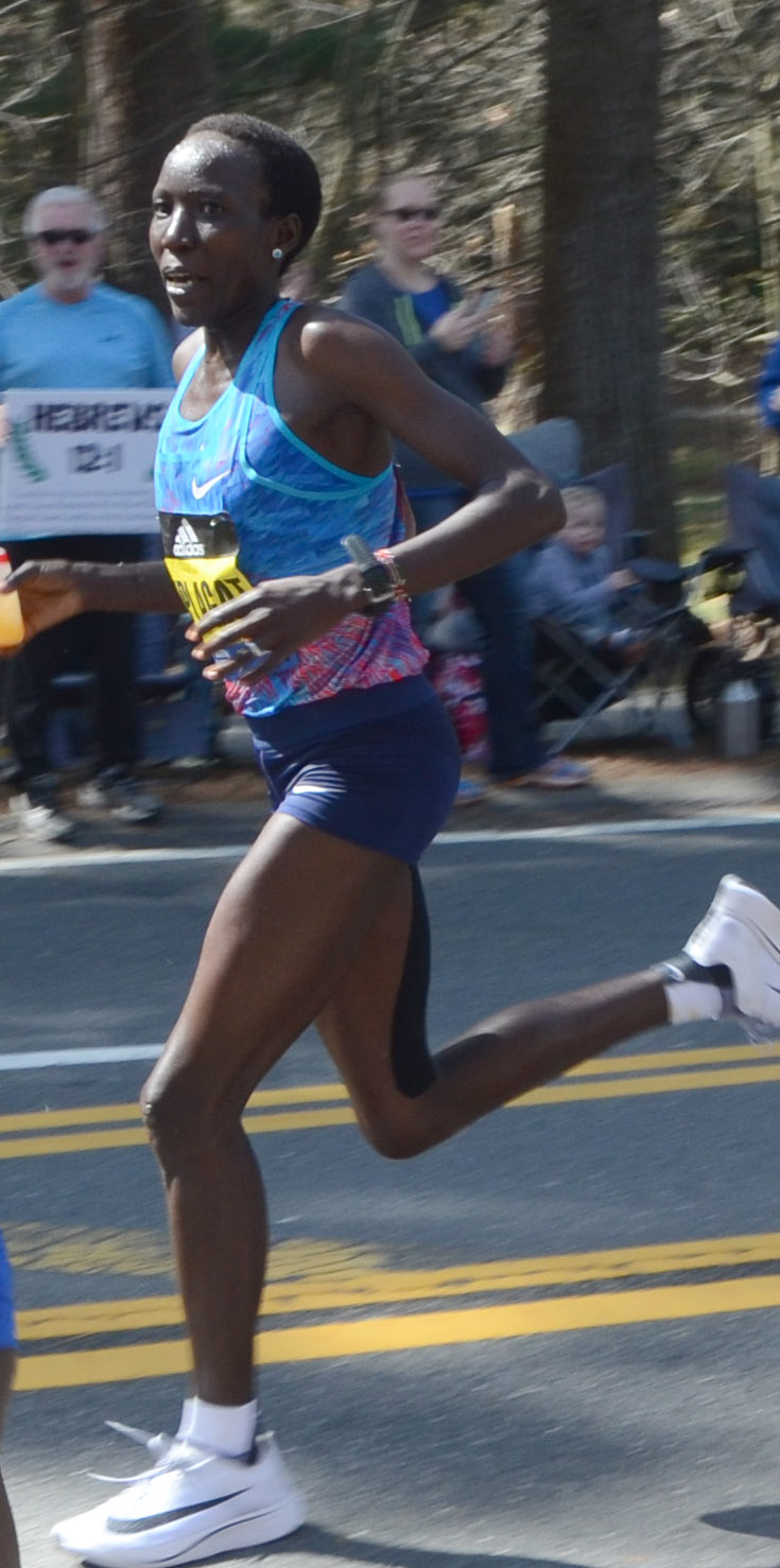 Edna Kiplagat near half way point in 2017 Boston Marathon